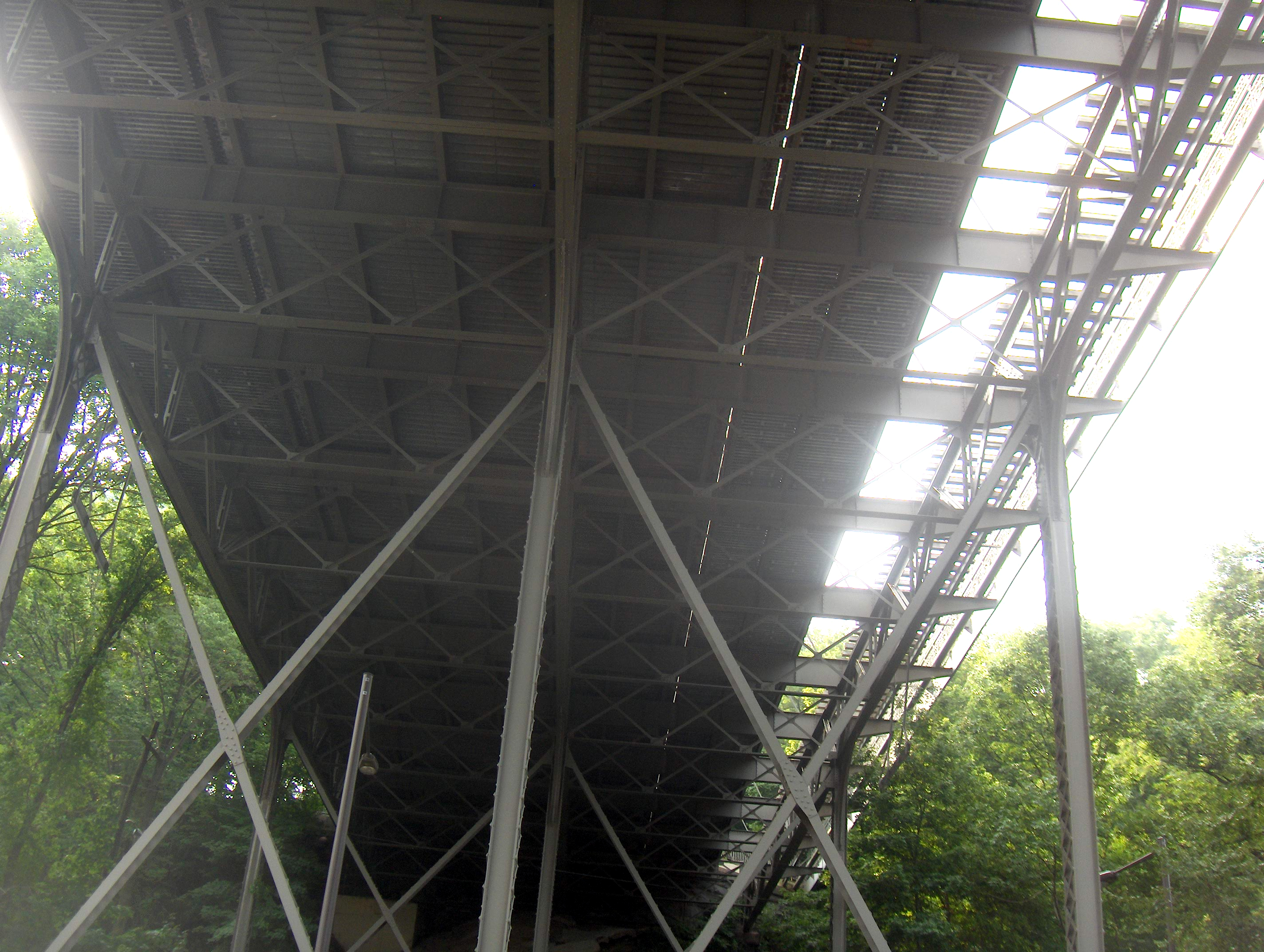 The Strawberry Mansion Bridge, built 1896-97, is a steel arch bridge across the Schuylkill River in Fairmount Park in Philadelphia, Pennsylvania, in the United States. Looking up at the span over Kelly Drive, with the former trolley tracks on the right.